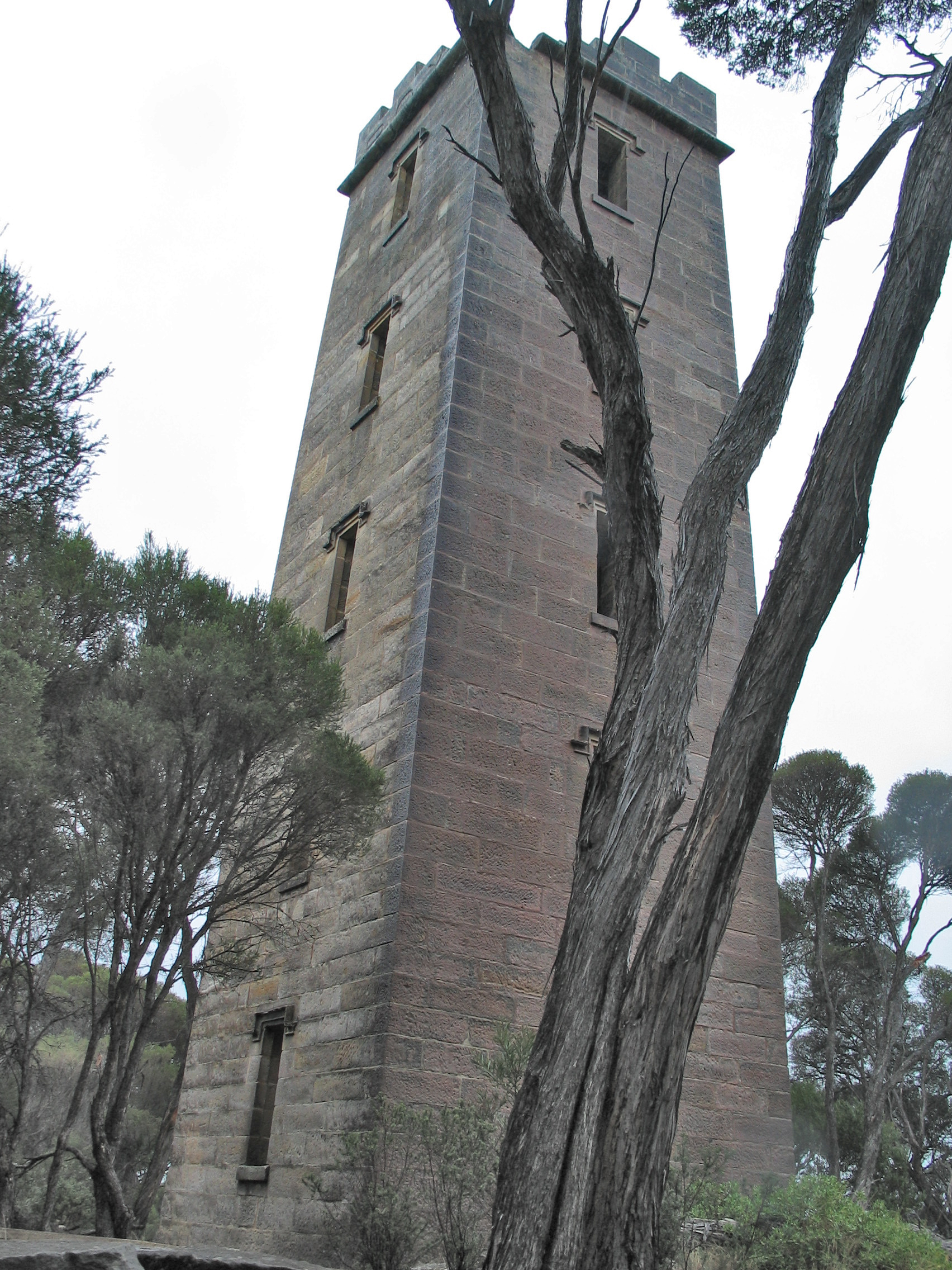 Ben Boyd's Tower, Ben Boyd National Park, Eden, NSW, Australia. Used for whale-spotting, was not a light-house.